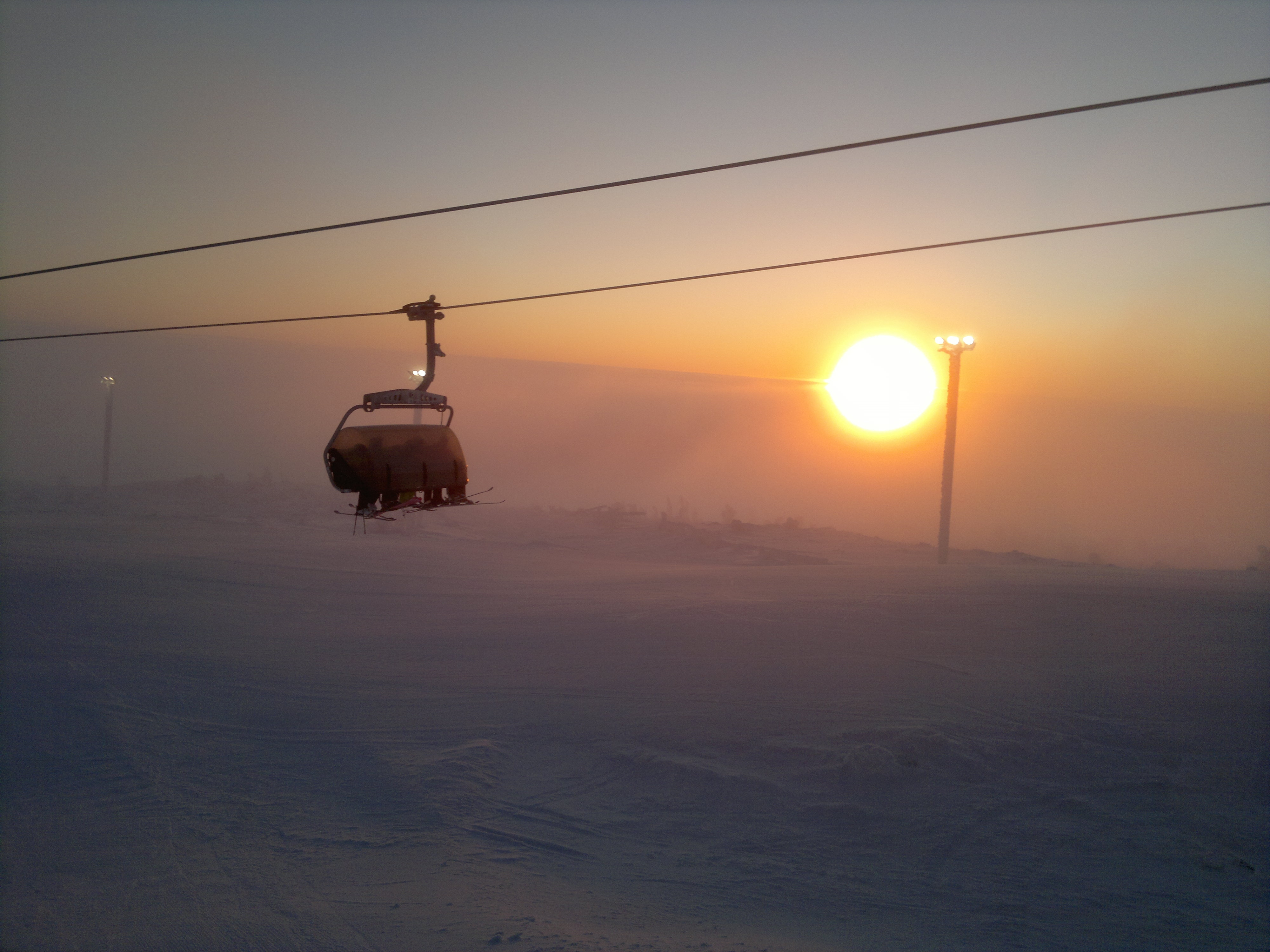 Ski lift in Pyhätunturi, Pelkosenniemi.